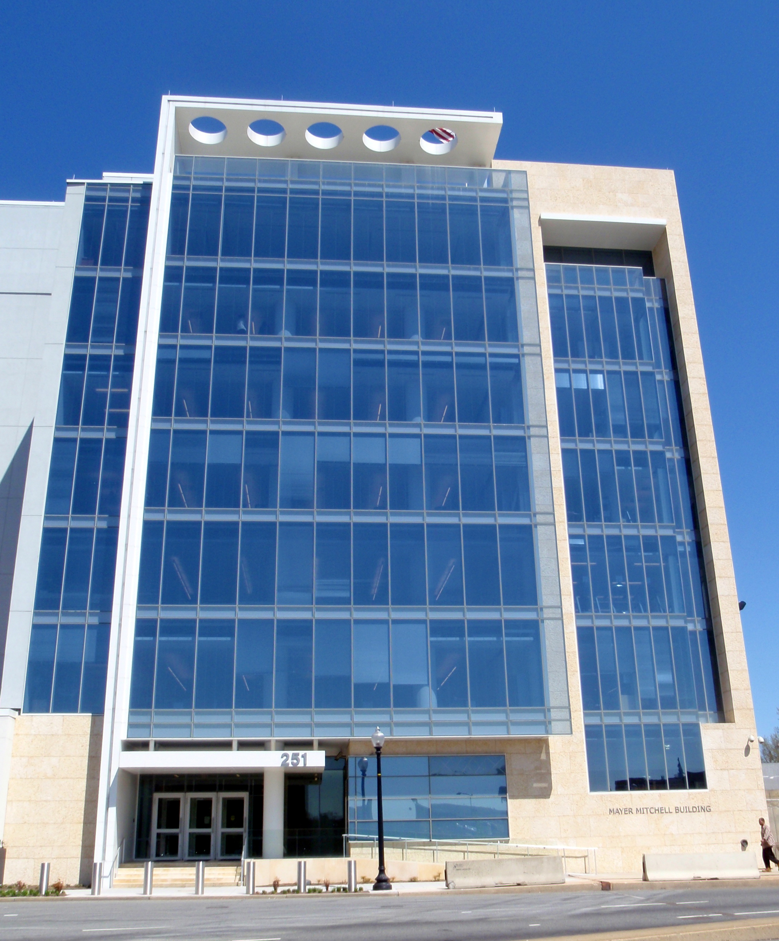 The Mayer Mitchell Building, headquarters of the American Israel Public Affairs Committee, in Washington, D.C.